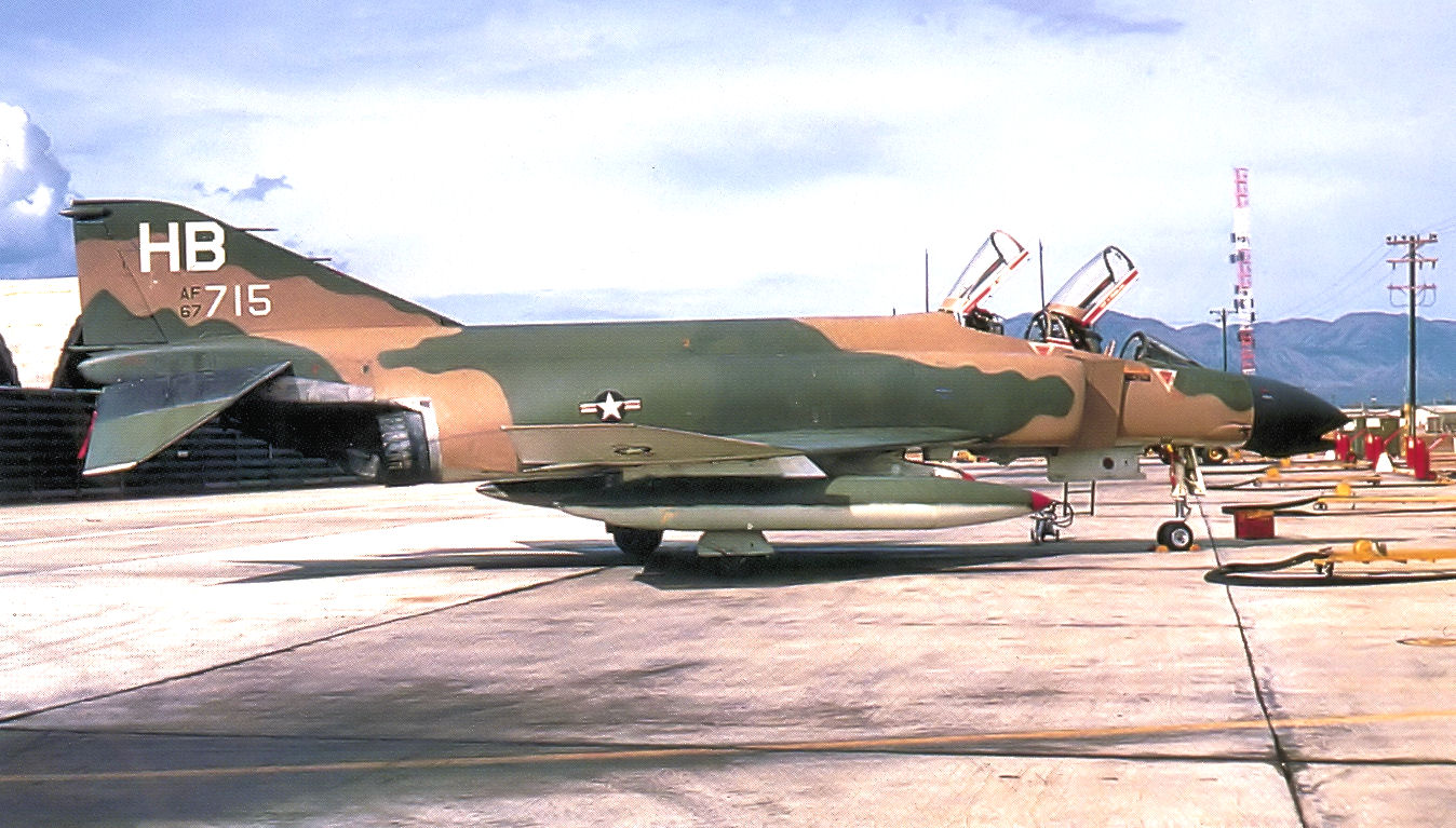 389th Tactical Fighter Squadron McDonnell F-4D-31-MC Phantom 66-7715 Phu Cat AB RVN 1969